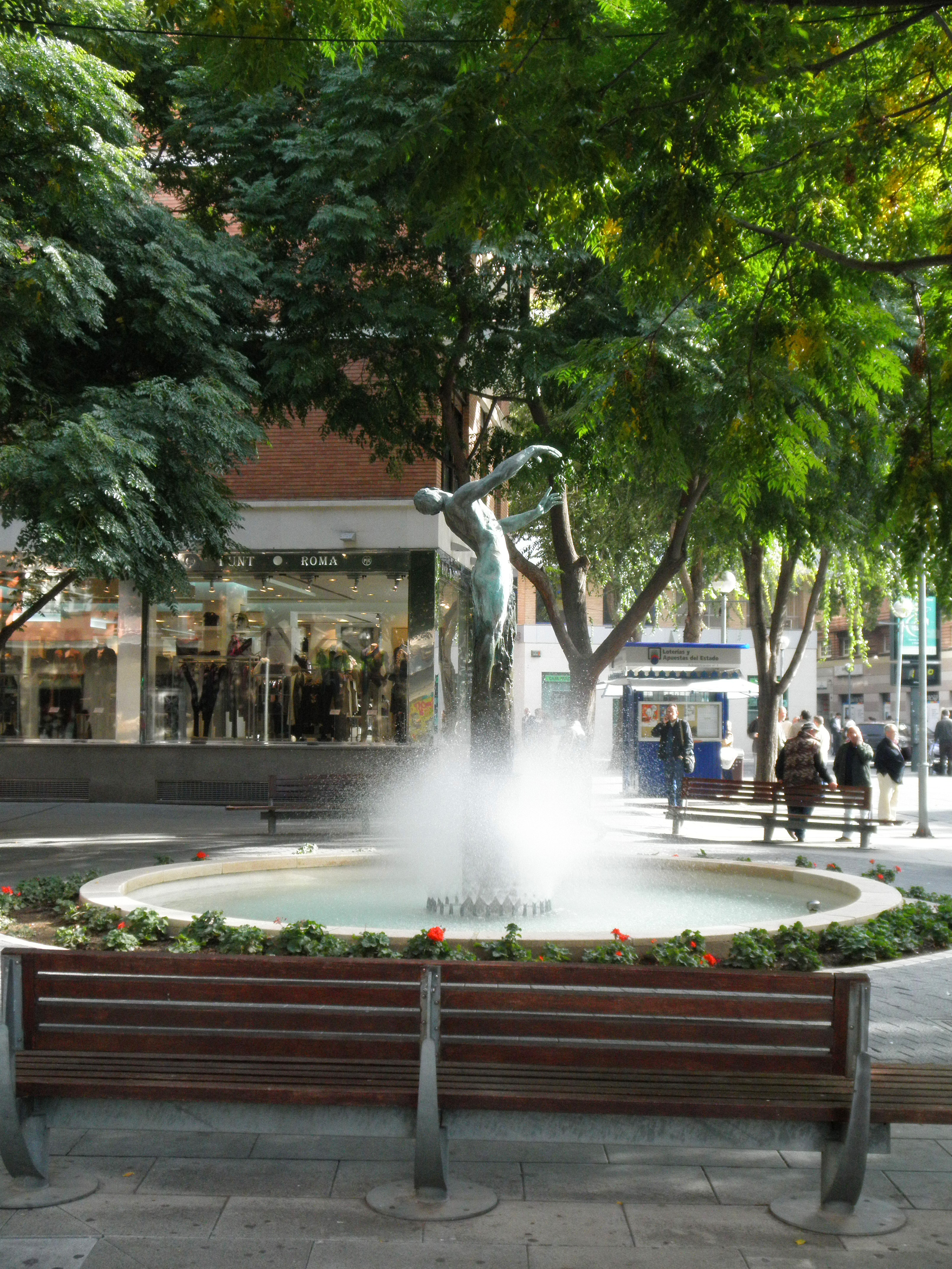 Tribute to the "Well of Don Gil", nucleus of original formation of the city Ciudad Real, Spain